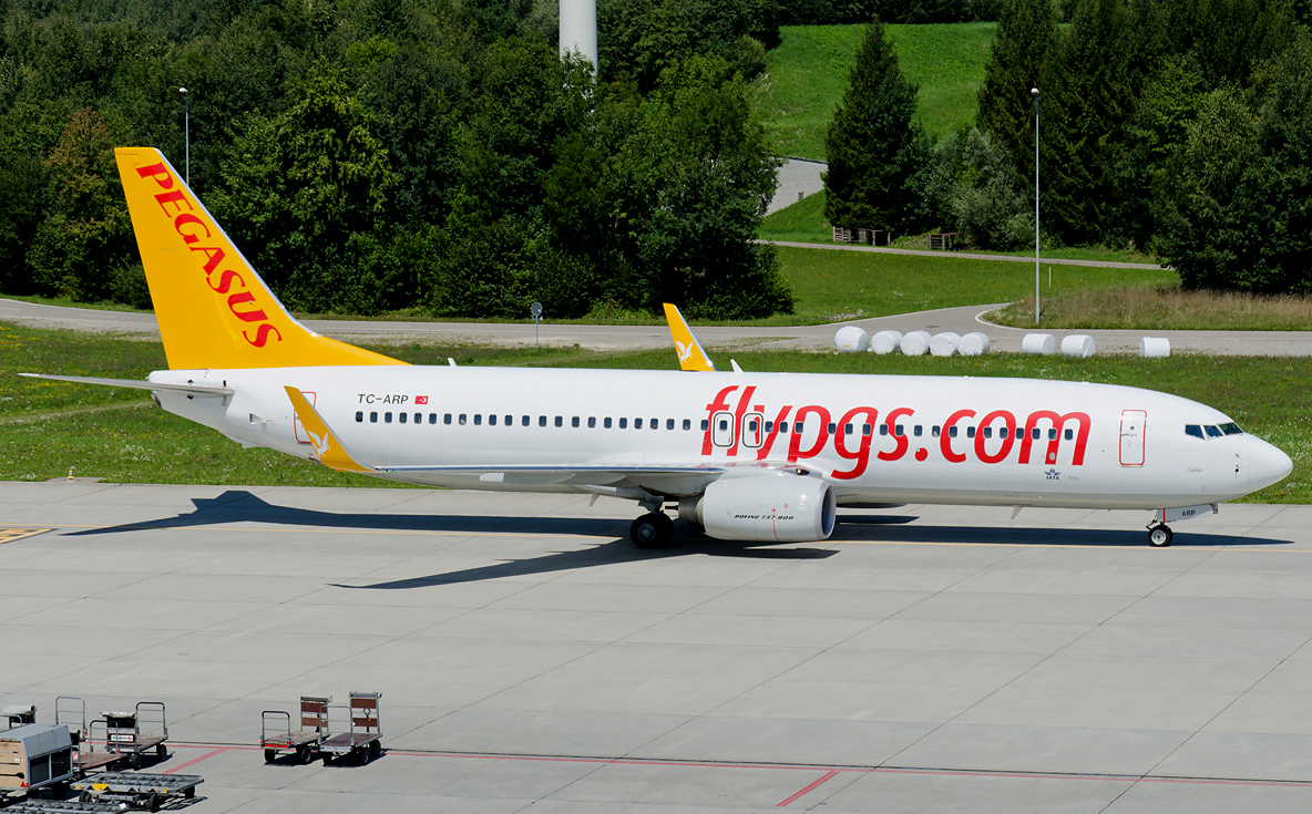 After landing in Zurich.